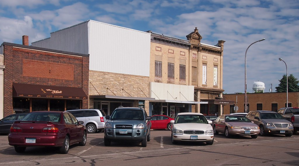 Broadway Avenue looking northwest, Slayton, Minnesota, USA.